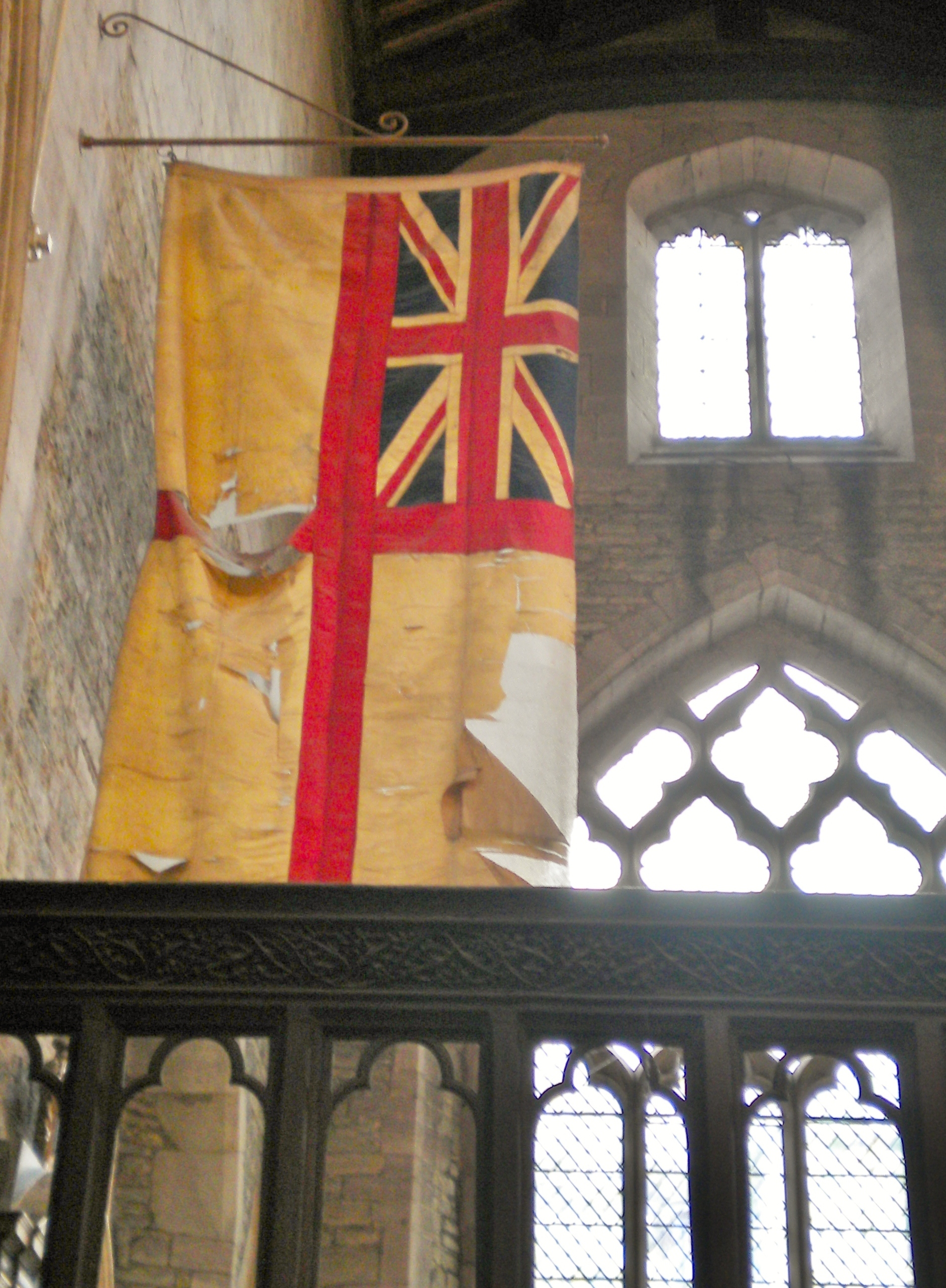 The Royal Naval white ensign from HMS Ludlow in St Laurence, Ludlow, Shropshire, England.